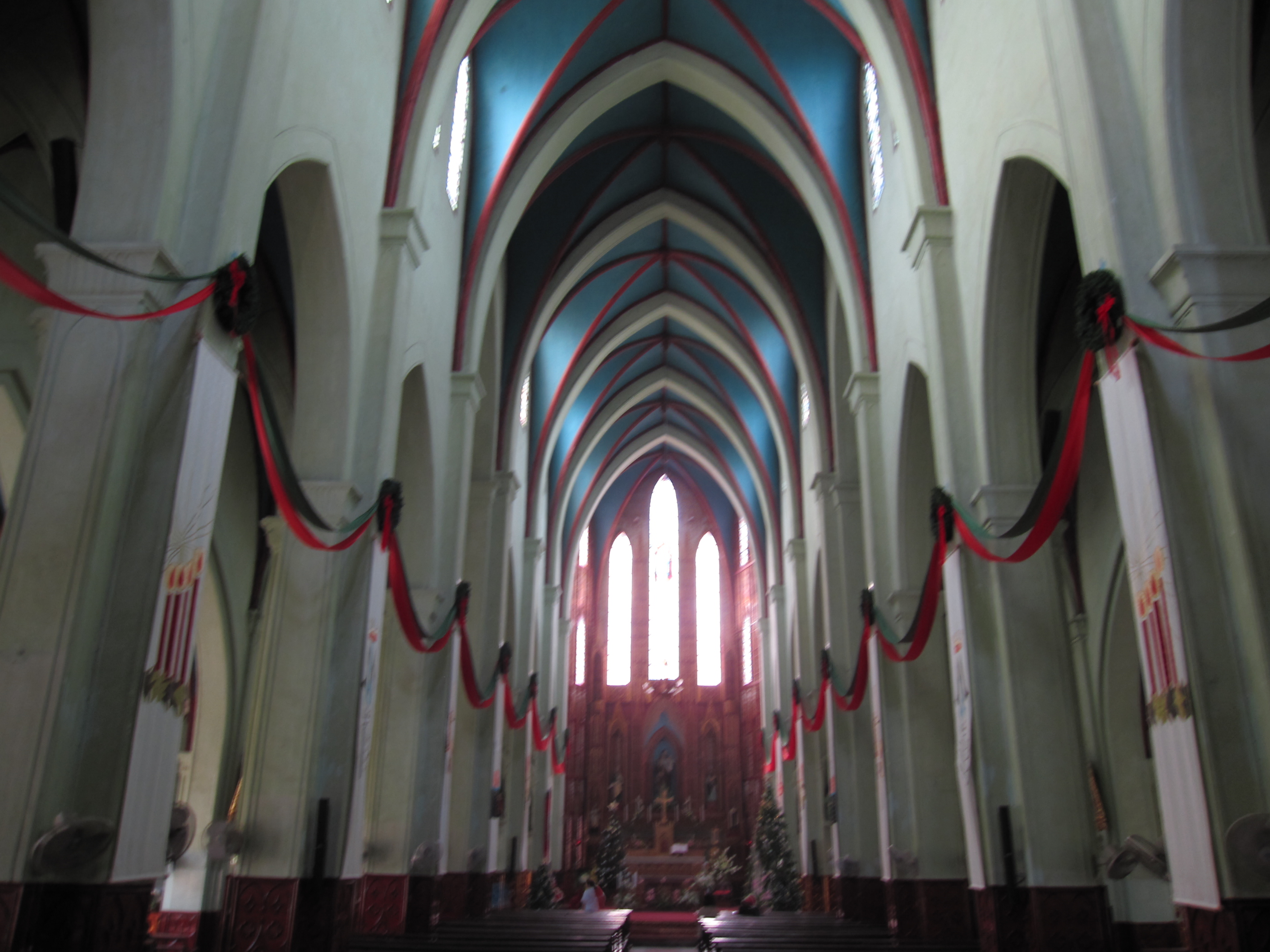 St. Joseph's Cathedral, Hanoi